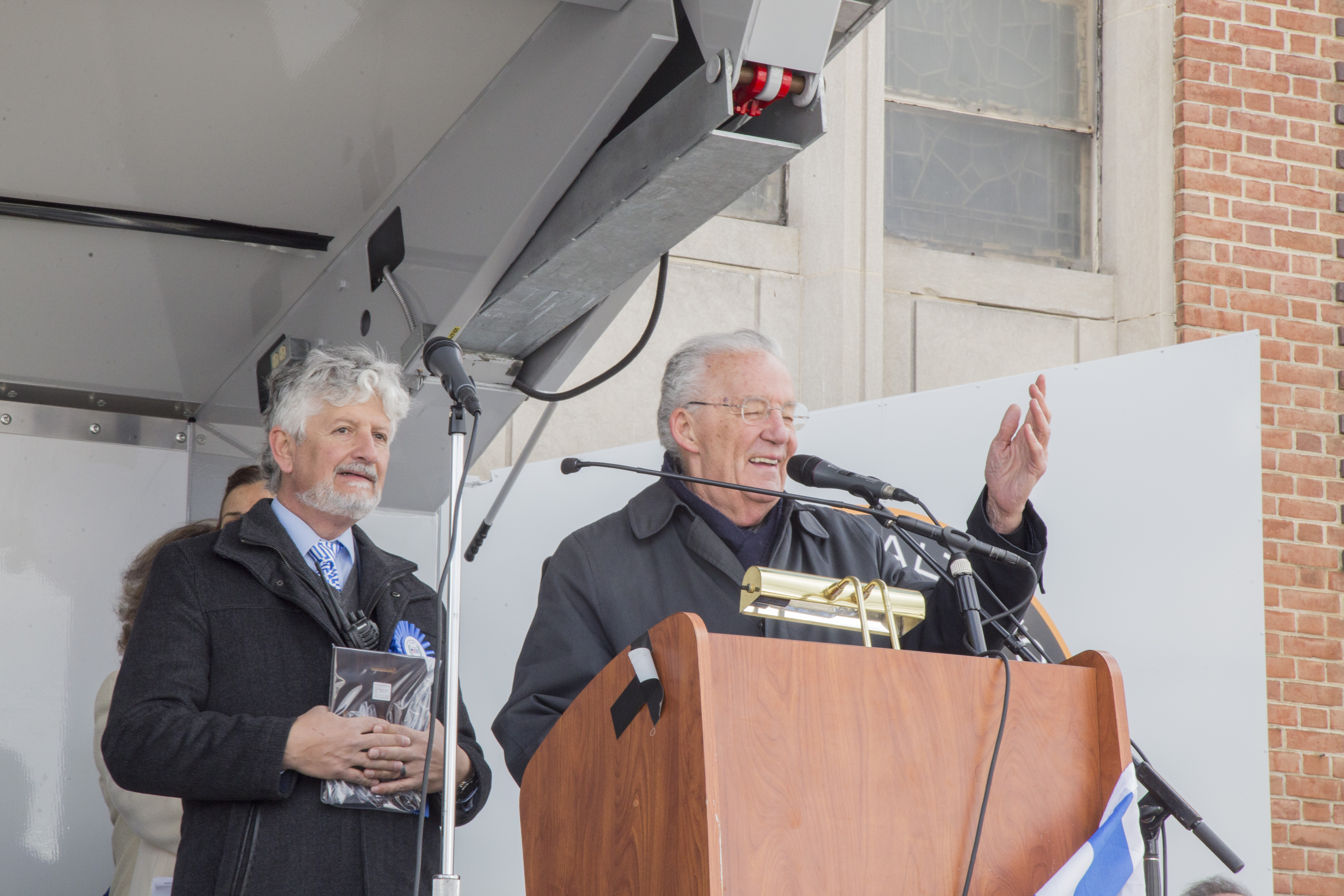 Photo by Katie Simmons-Barth 2018 Greek Independence Day Parade Baltimore